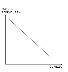 Effect of hardness on Barkhausen noise signal